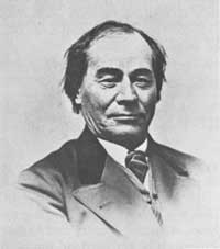 William Bent, Bent's Fort, Originally from Colorado Historical Society, Obtained from Published before 1923